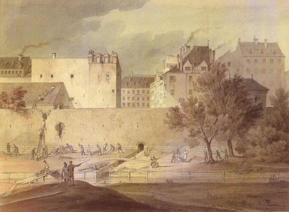 Destruction of the city wall